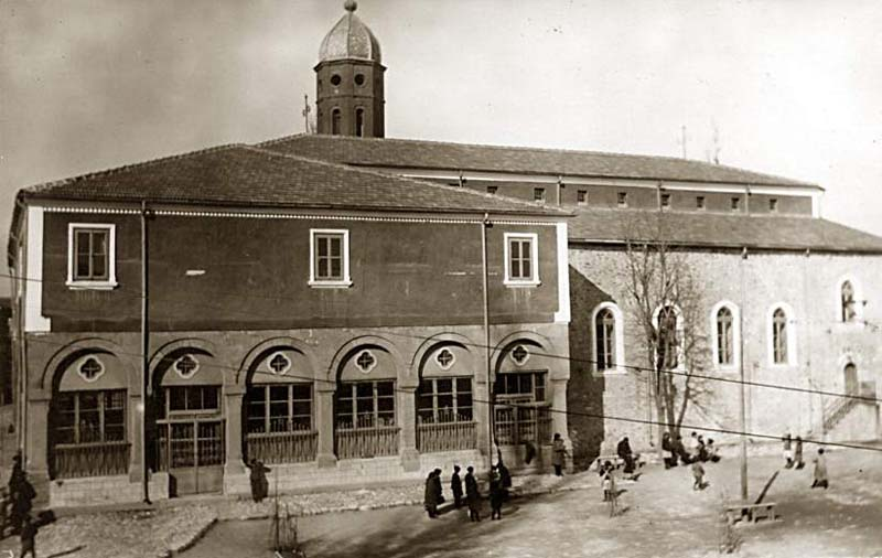 Assumption of Mary Church in Skopje, Macedonia